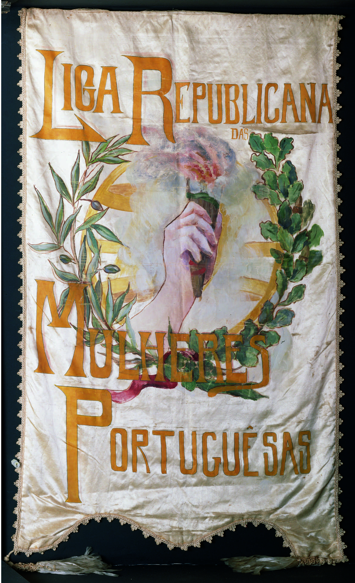 Standard of the Liga Republicana das Mulheres Portuguesas (Republican League of Portuguese Women), c. 1909-1911.